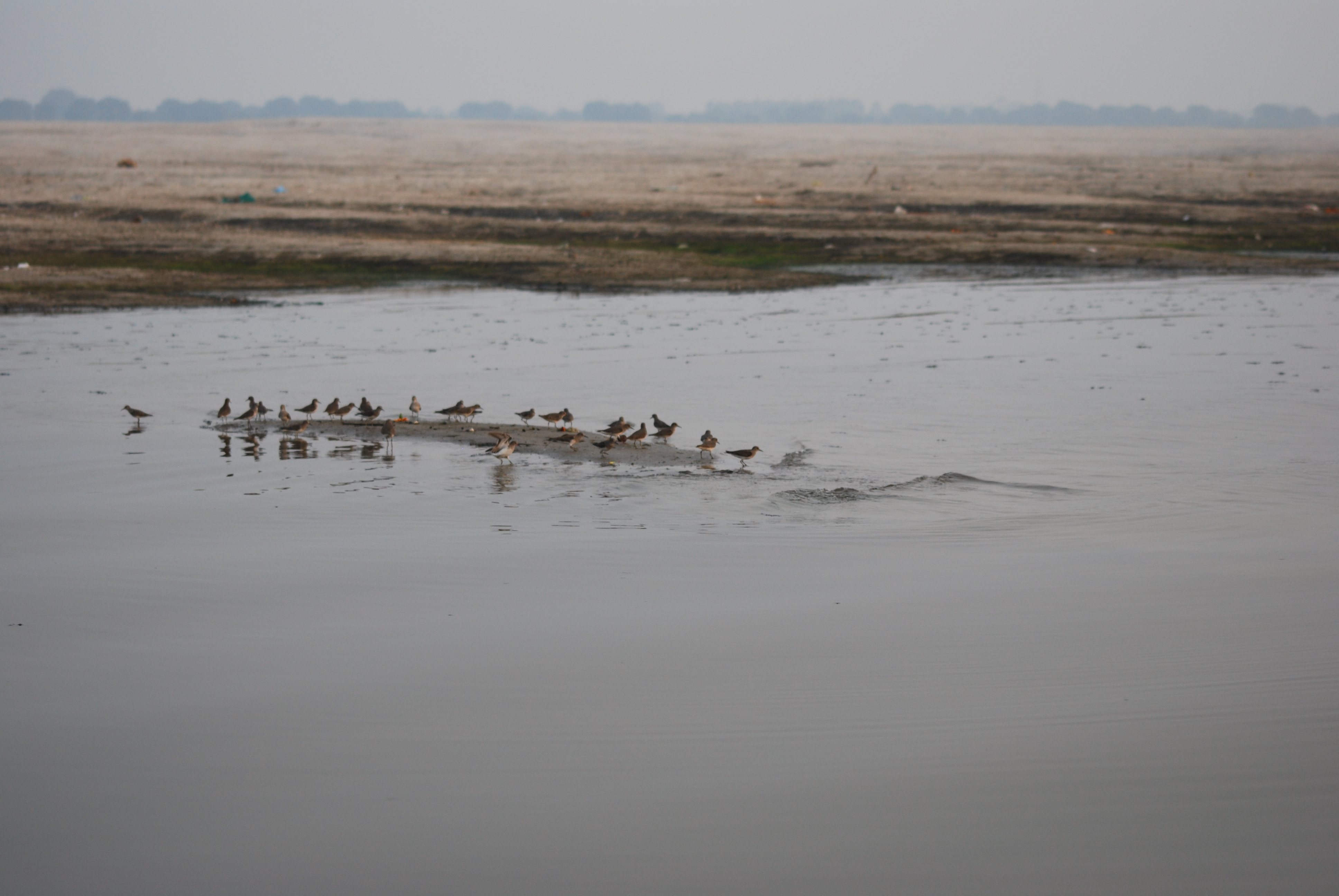 Temminck's Stint (Calidris temminckii) on Ganges